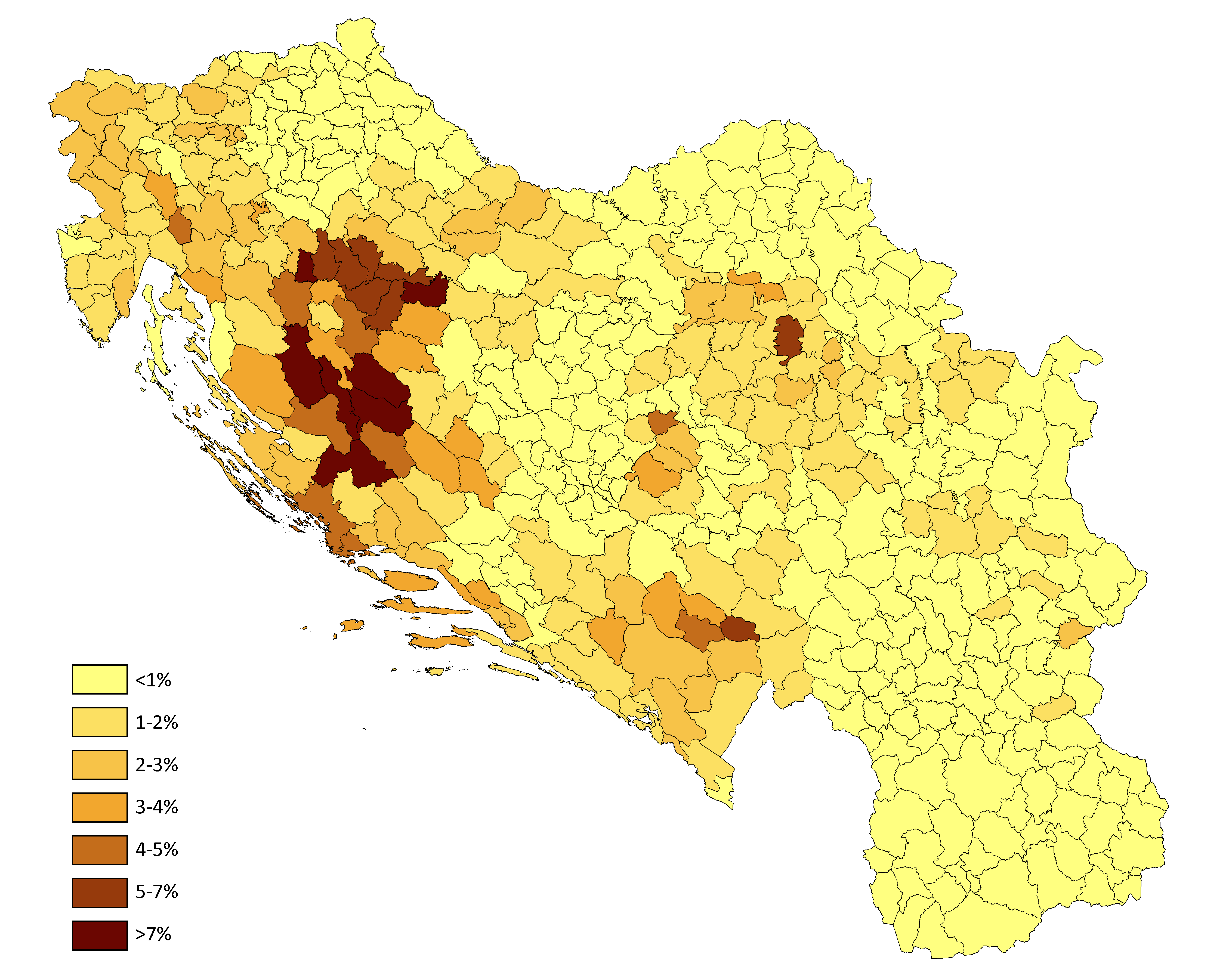 Casualties of the Yugoslav Partisans during World War II on a municipal level, based on their prewar residence and in relation to the total population of the municipality. Data from the 1964 victims survey.